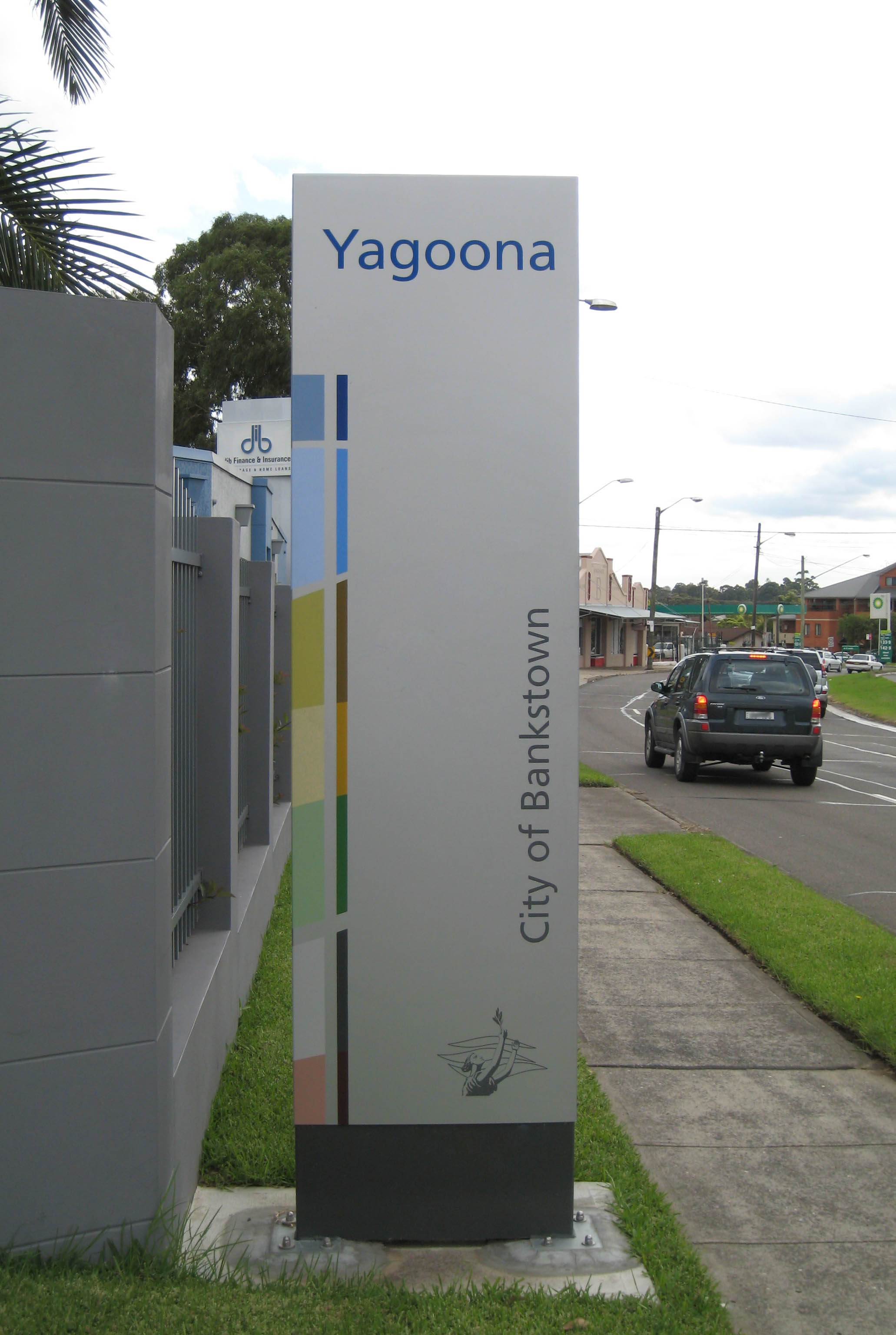 Yagoona Sign on Hume Highway heading westbound